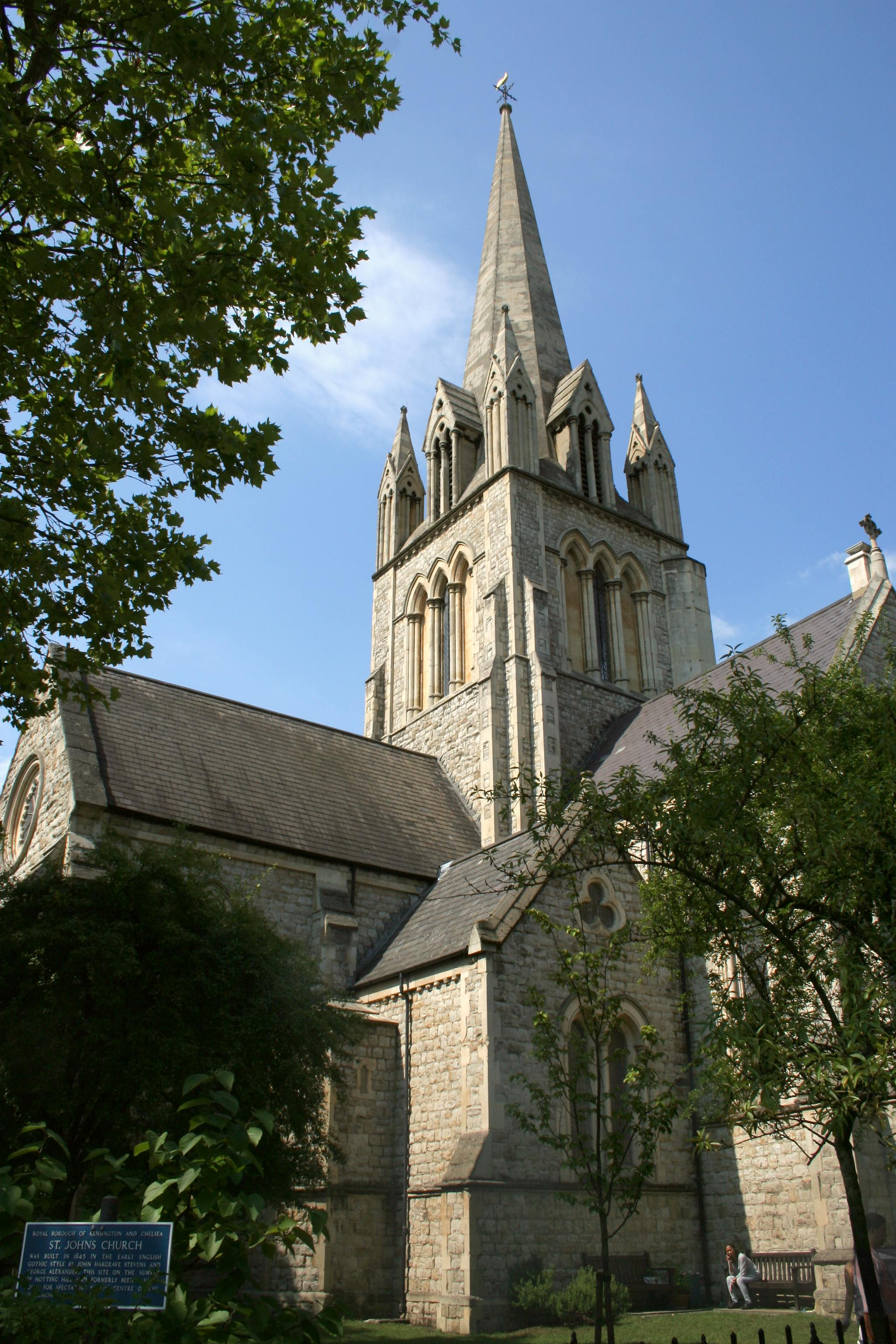 The central tower and spire of St John's parish church, Ladbroke Grove, Notting Hill, London W11, seen from the southeast